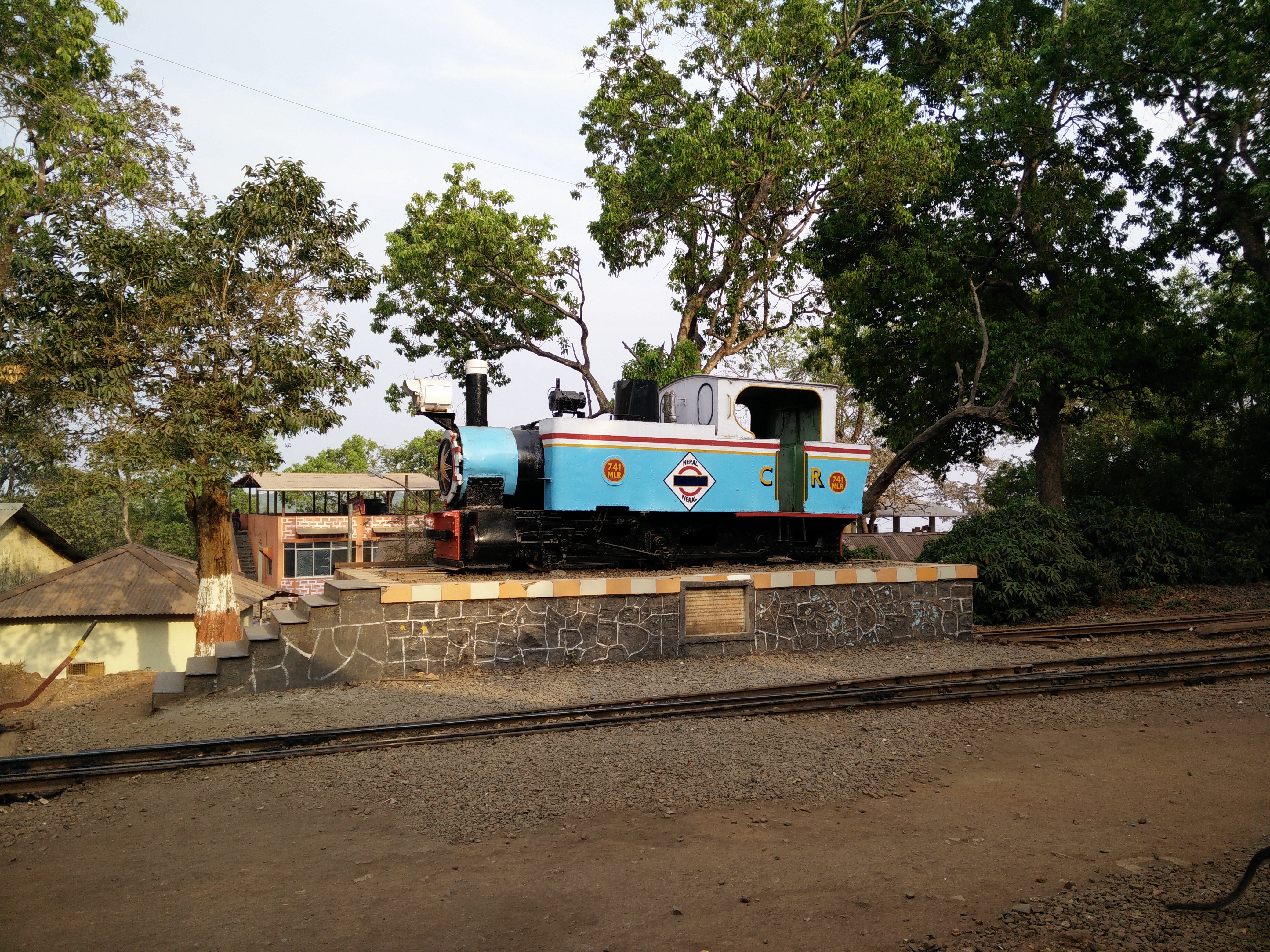 Mini train engine at Matheran station